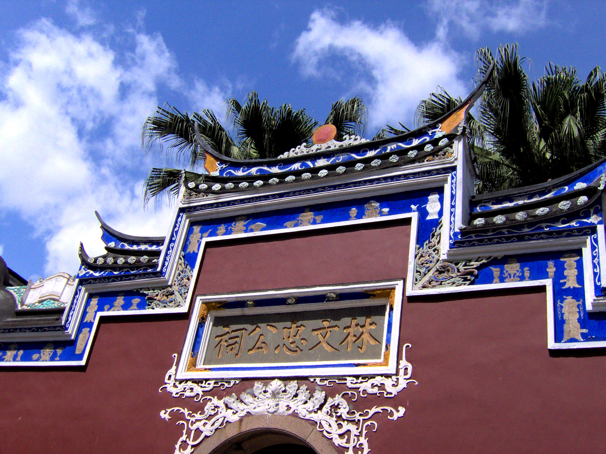 Photo of the entrance to the Lin Zexu Memorial in Fuzhou from 2004.